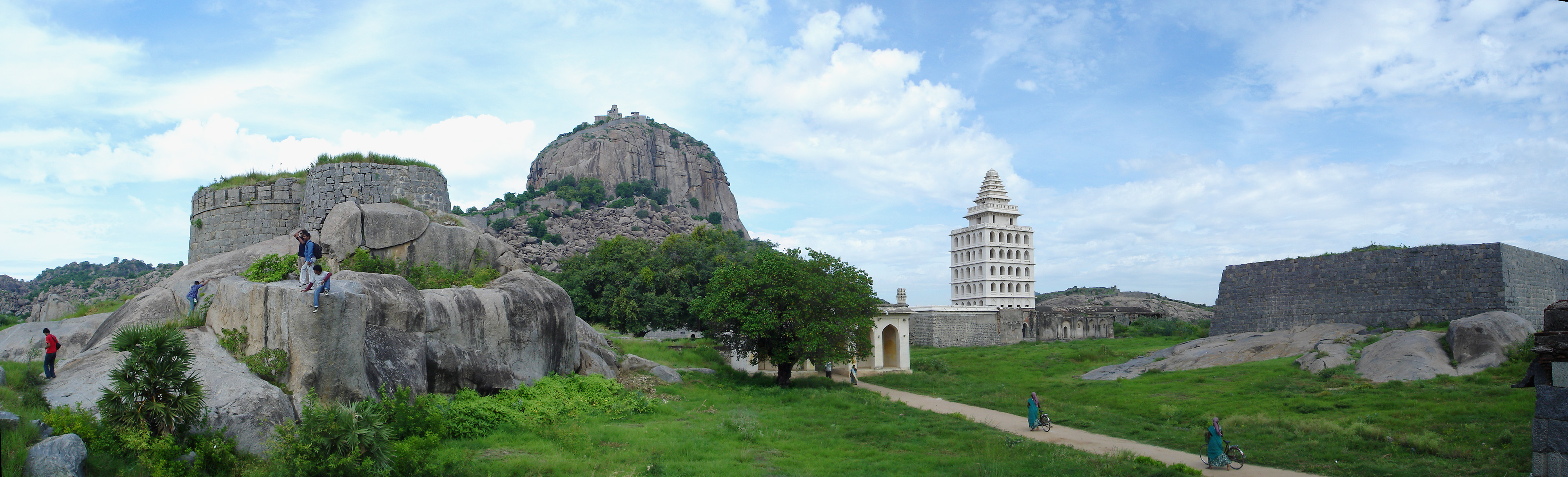 A view of the Rajagiri Citadel (atop the hill), Kalyana Mandapam (white tower) and the Mohabatkhan mosque (right) at the Gingee Fort complex.